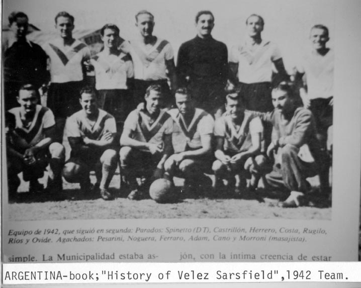 This is a picture of the 1942 Velez Sarsfield team that played in Second Division. The goal keeper is Miguel Rugilo "lion of Wembley". José M. Noguera also played on this team.